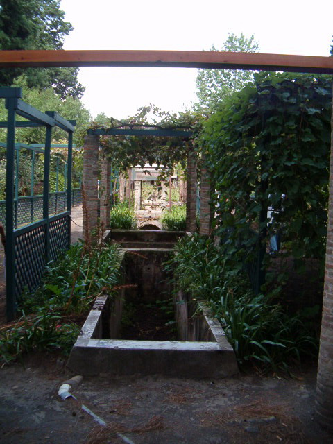 Octavius Quartio's house-Pompeii